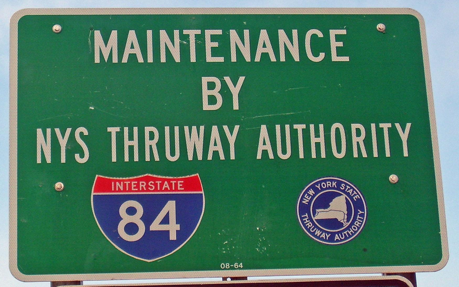 Sign at ramp from EB US 6/NY 17M to EB I-84 at Exit 3 near Middletown, NY, USA s